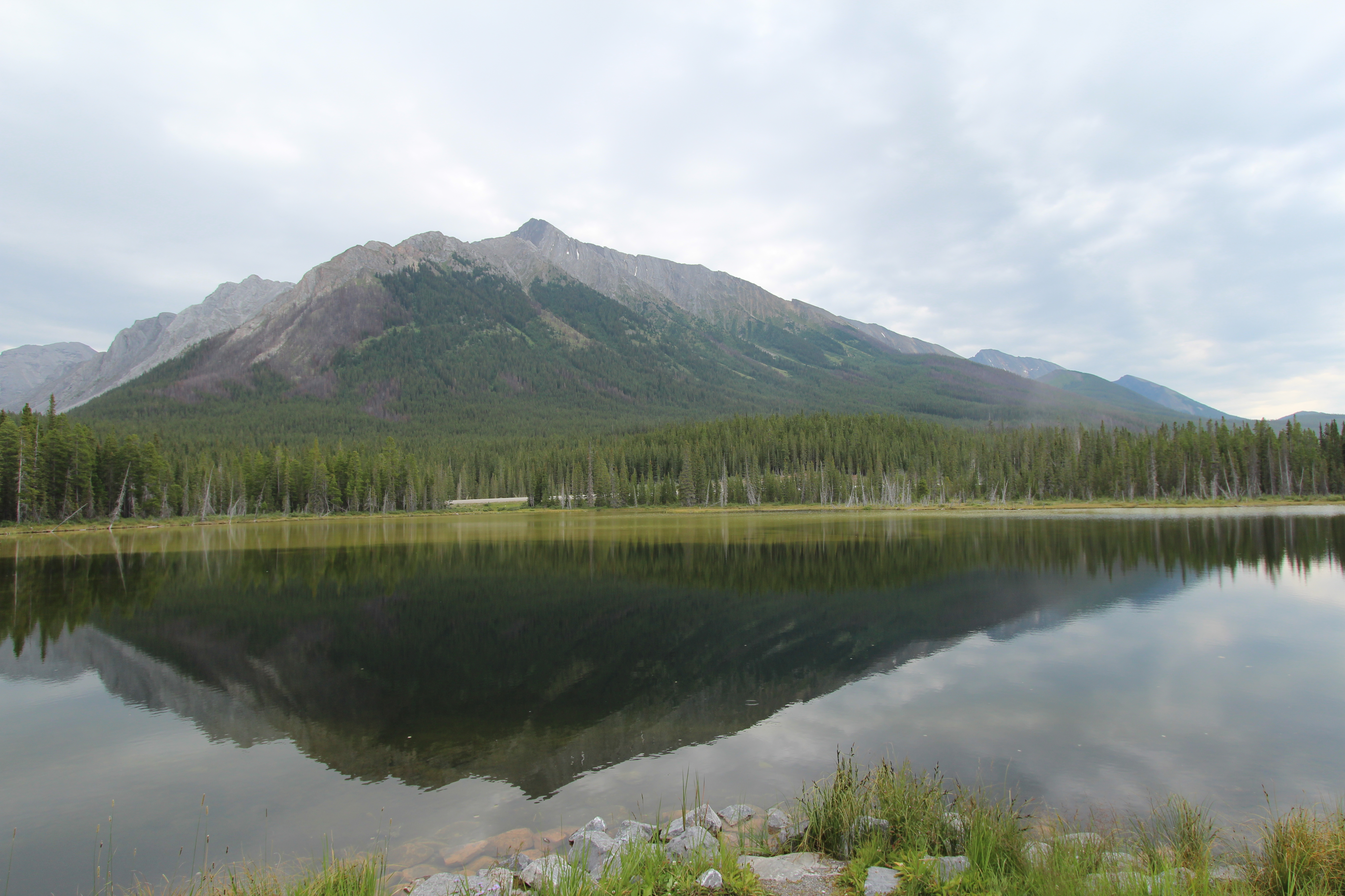 Buller mountain time for a rest and soak up the scenery